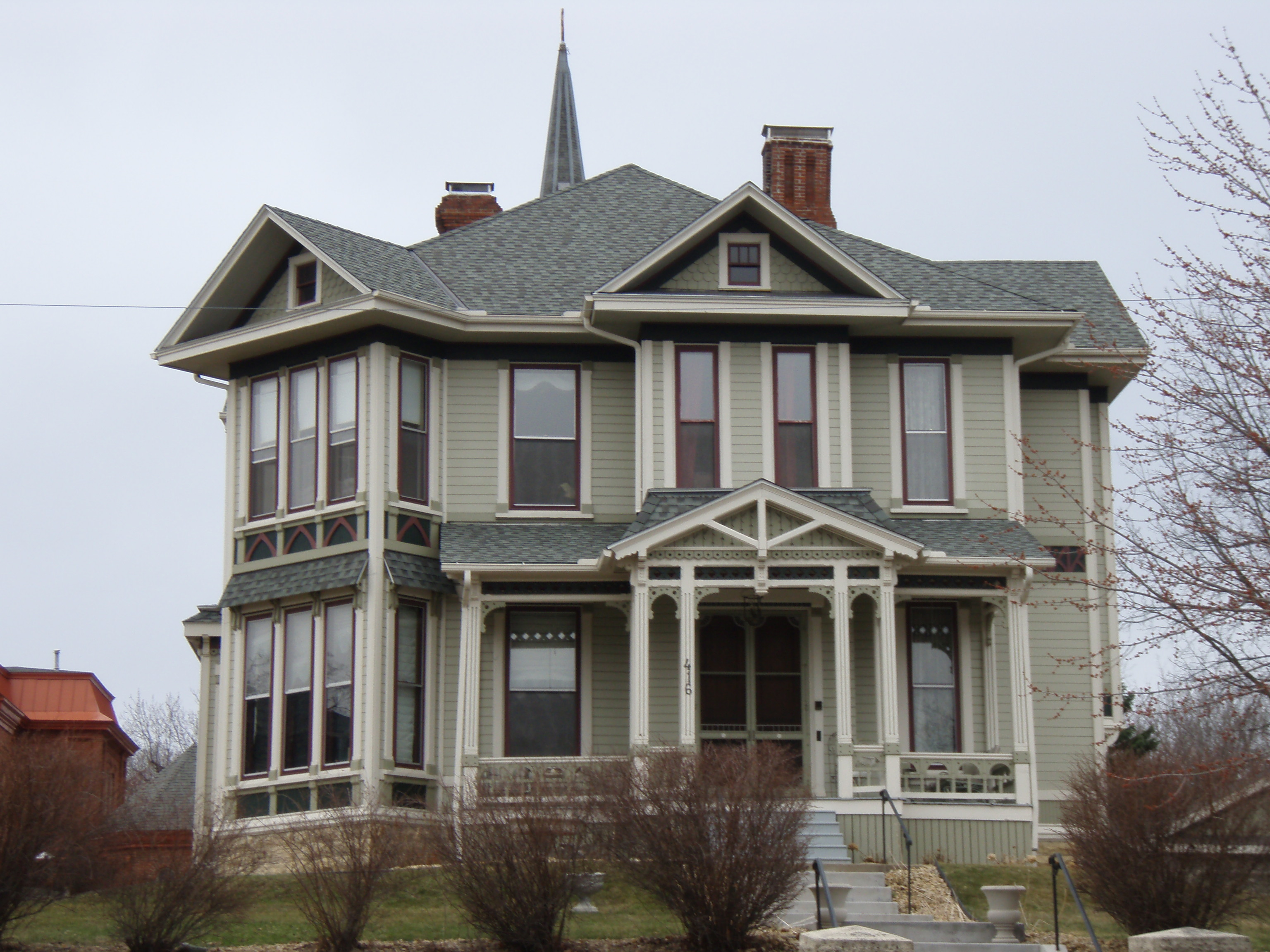 Roscoe Hersey House in Stillwater, Minnesota, listed on the National Register of Historic Places.